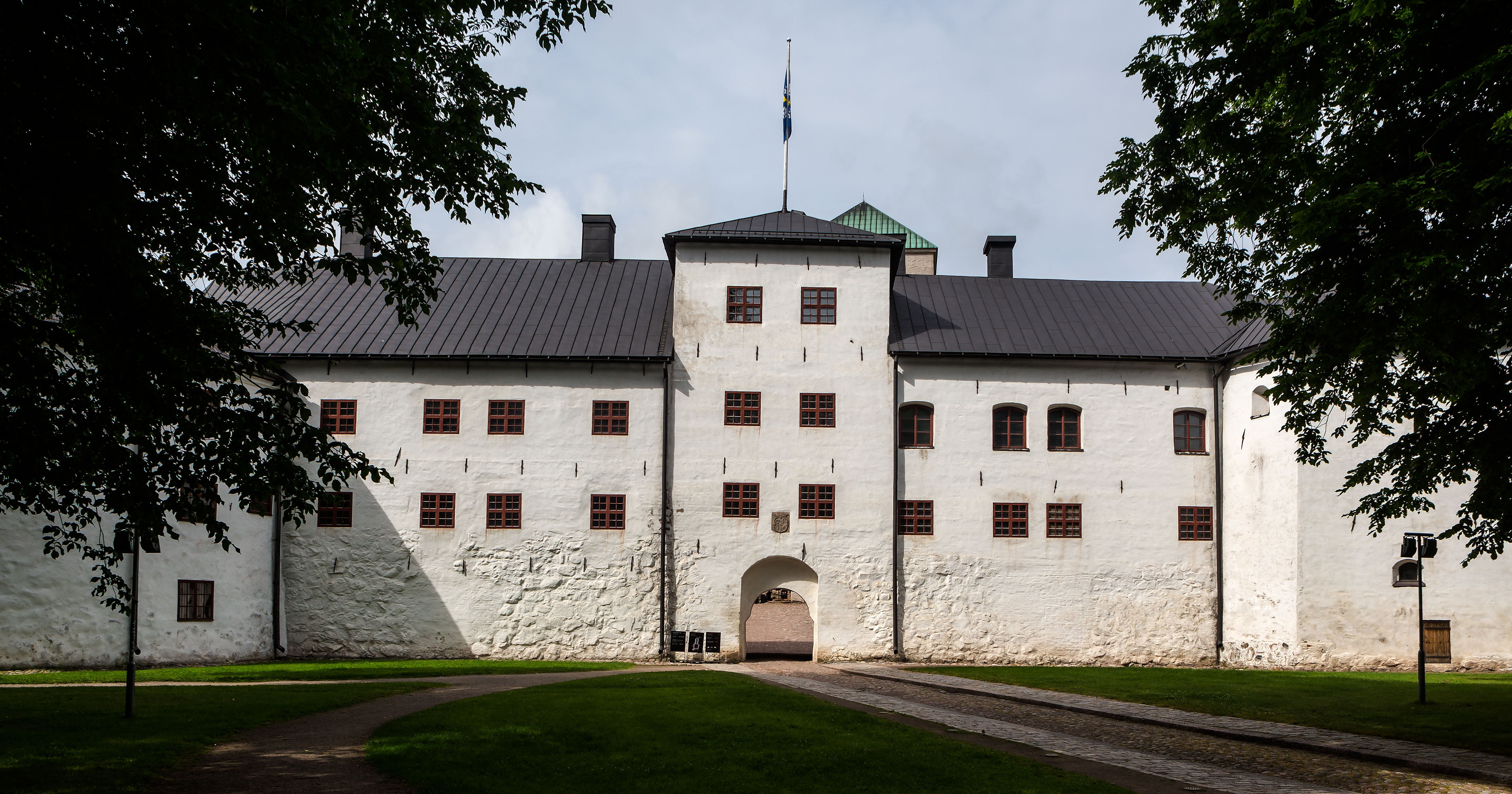 Turku Castle from the east